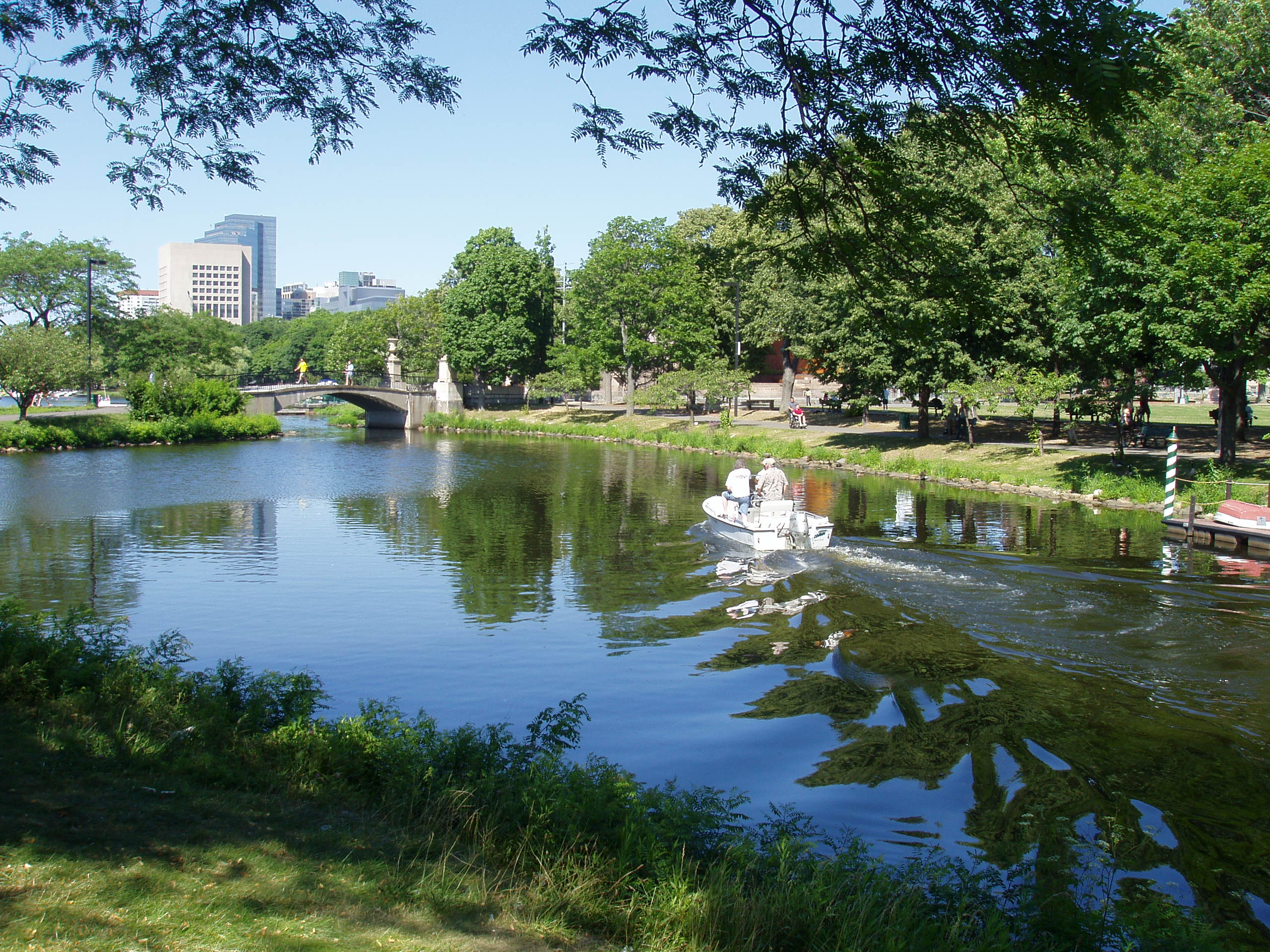 A summer day on the Charles River Esplanade, Boston, Massachusetts. Photograph taken by me, July 2005. Category:Images of Boston, Massachusetts nl:Afbeelding:Charles River Esplanade, Boston, Massachusetts.JPG